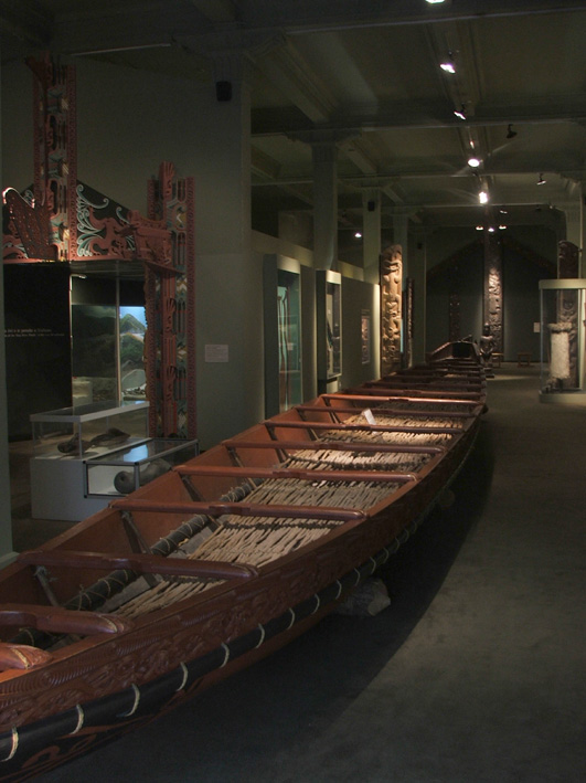 A Maori waka on display in the Otago Museum, Dunedin, NZ.